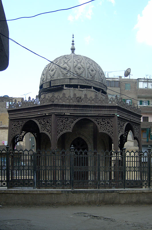 Tomb of Suleiman Pasha el-Faransawi, Old Cairo, Egypt